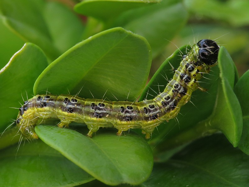 Cydalima perspectalis (Crambidae) - (caterpillar), Ammerzoden, the Netherlands